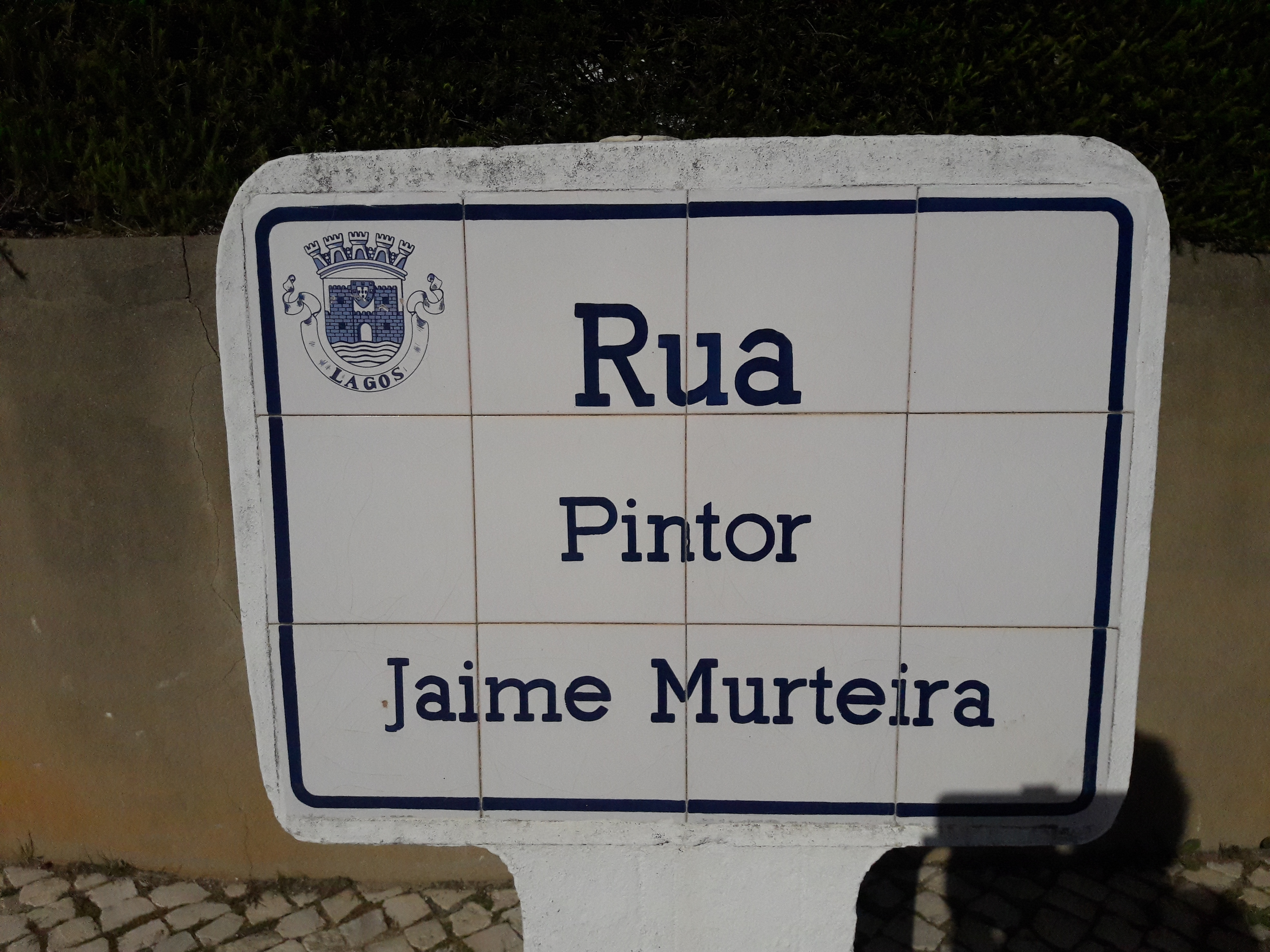 Street sign of Rua Pintor Jaime Murteira, in the city of Lagos, in southern Portugal.